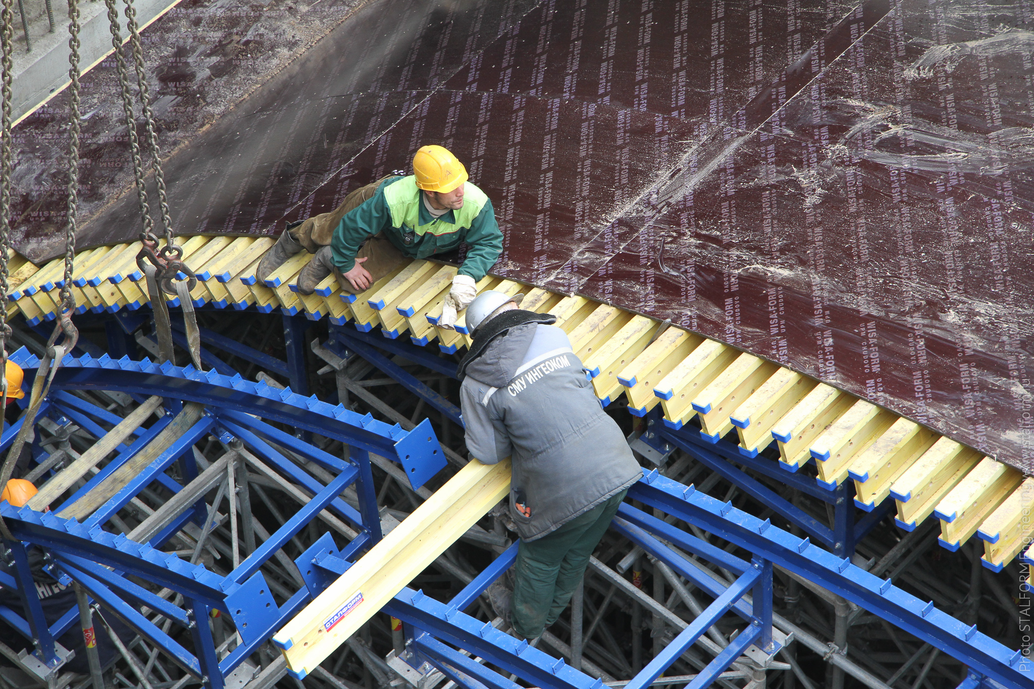 Assembling formwork system in Moscow metro station Borisovo